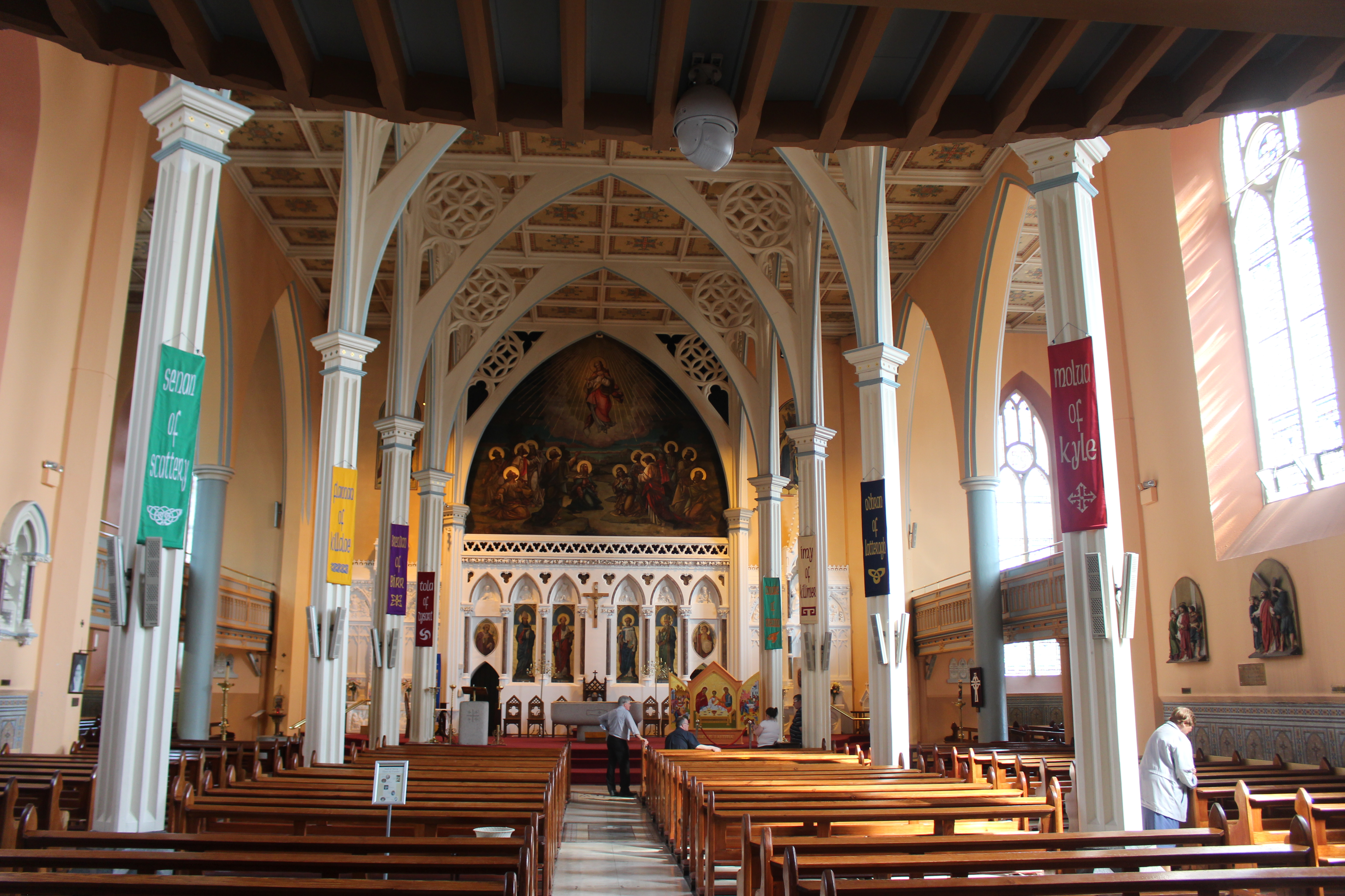 Ennis, Ennis Cathedral. Wikidata has entry Q2942422 with data related to this item.